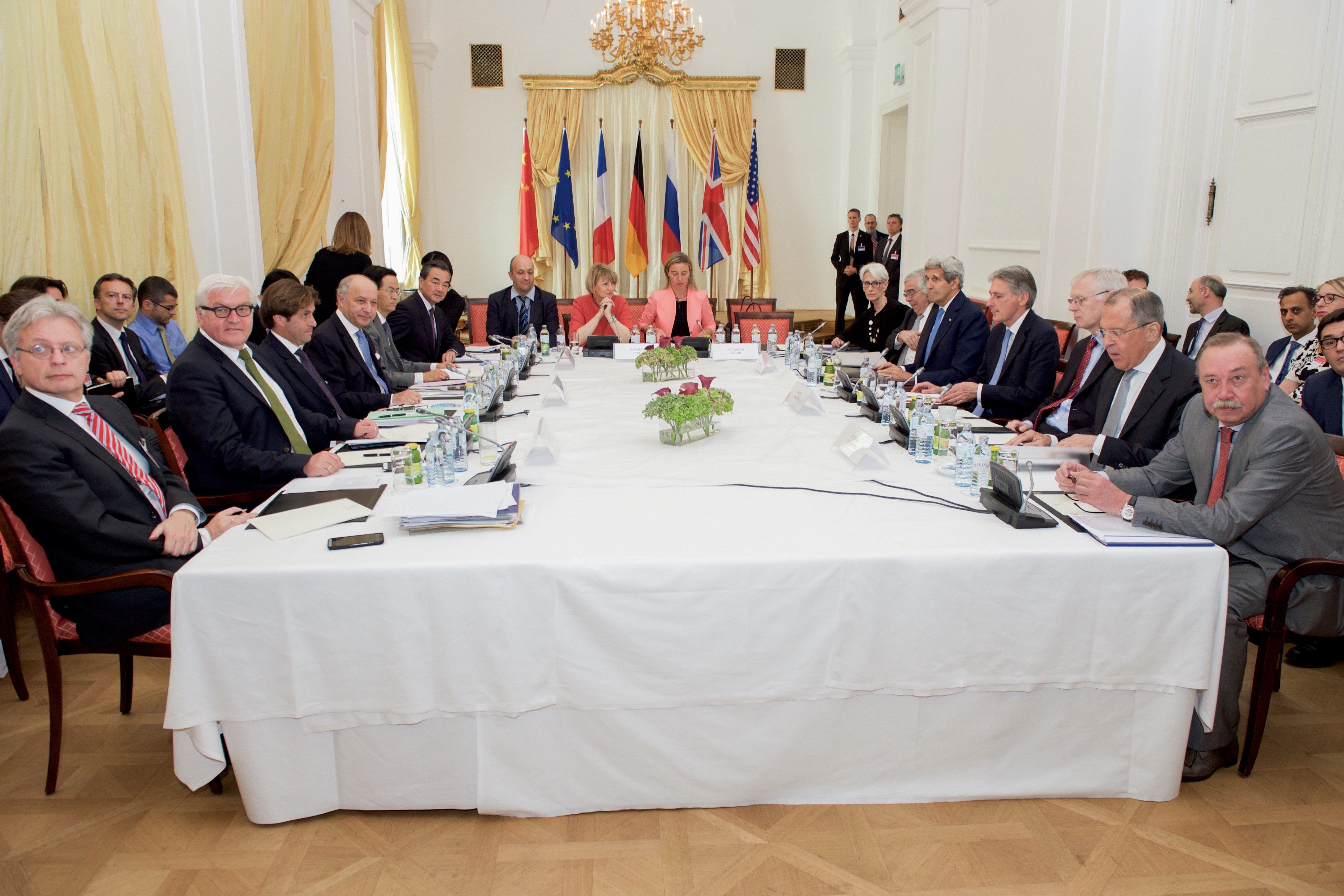 The P5+1 and E.U. ministers met for the first time collectively on July 6, 2015, in the Palais Coburg Concert Hall after Russian Foreign Minister Lavrov and Chinese Foreign Minister Wang made it to Vienna. [State Department photo/ Public Domain]